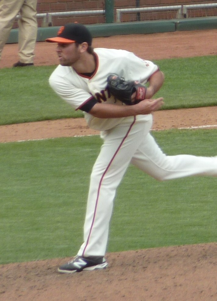 Brett Bochy pitching for the San Francisco Giants at AT&T Park in 2014